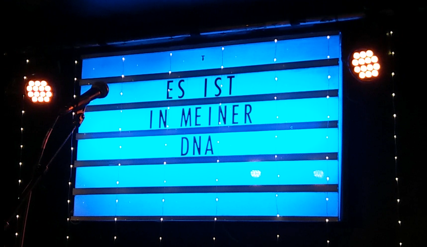 Stage during Madeline Junos Acoustic Tour 2019 at The Tube, Düsseldorf.